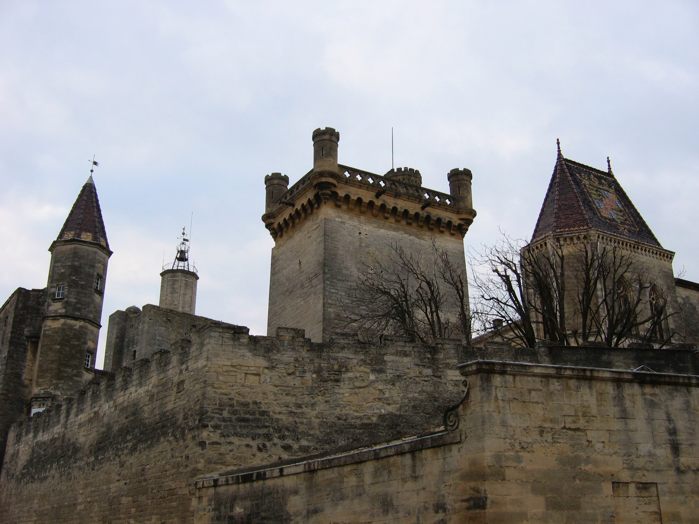 Photo taken by Poppy in January 2006. Uzès - Castle